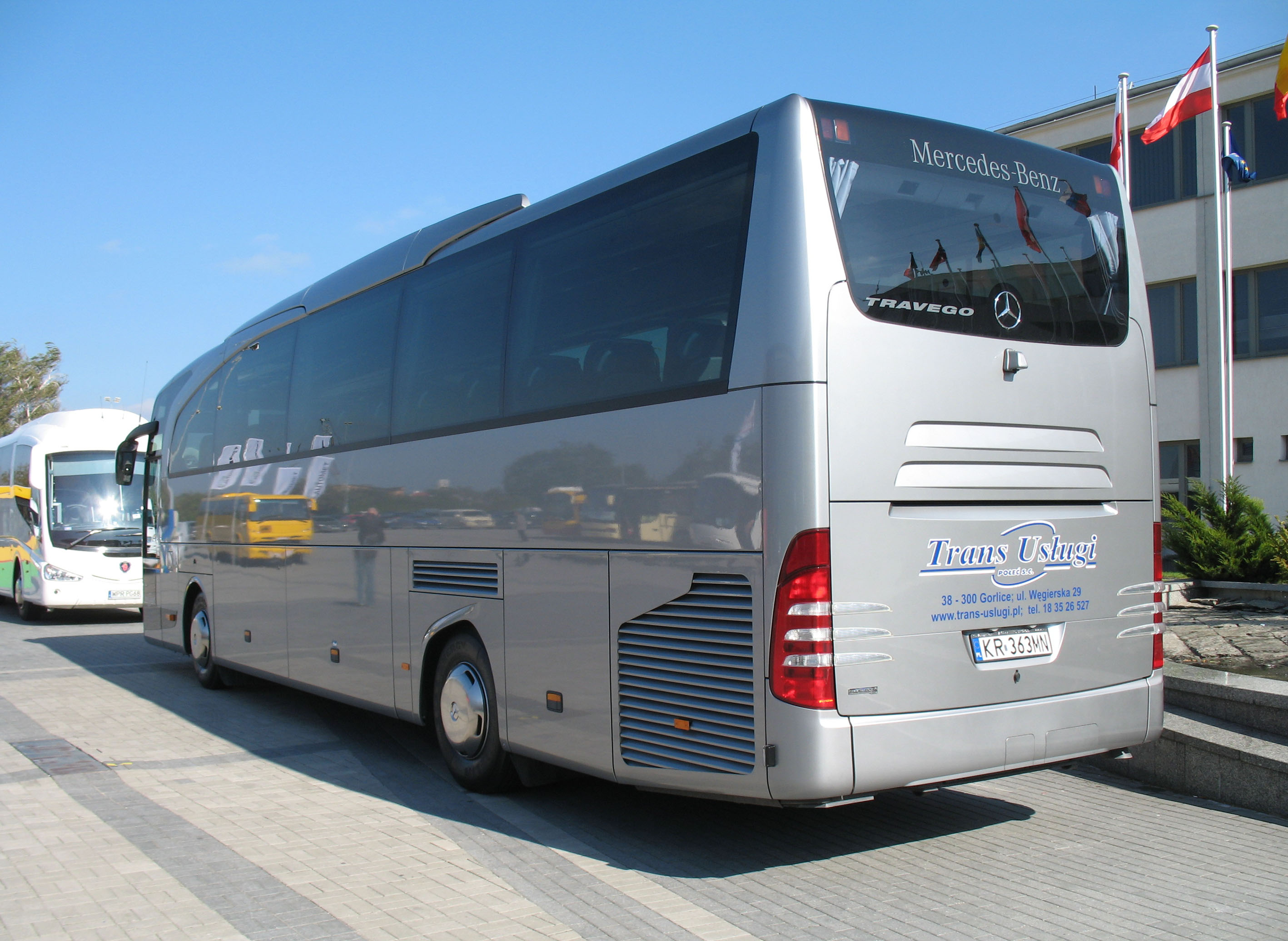 Mercedes-Benz Travego O580-15RHD Mk3 coach (reg. KR 363MN) in Kielce, Poland. Built 2010, Trans-Usługi Połeć Gorlice operator. Transexpo 2010.